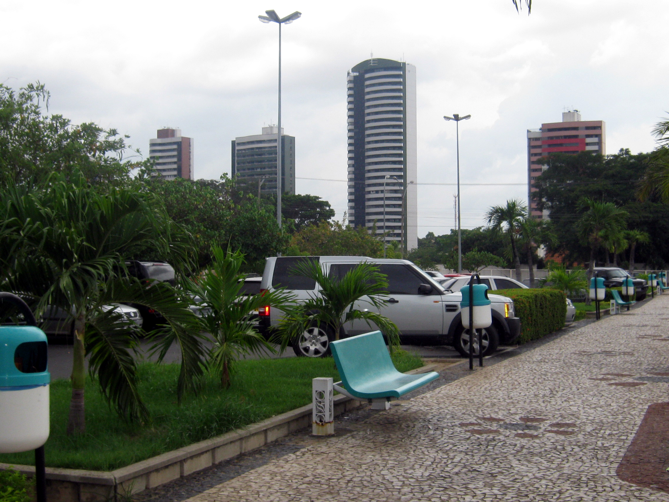 Teresina, Piauí, Brazil